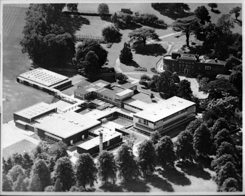 Birds eye view of Wilmington Hall, approx 1964, when it was DTHS